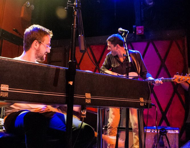 Vulfpeck performing live at Rockwood Music Hall in New York City on October 4, 2013